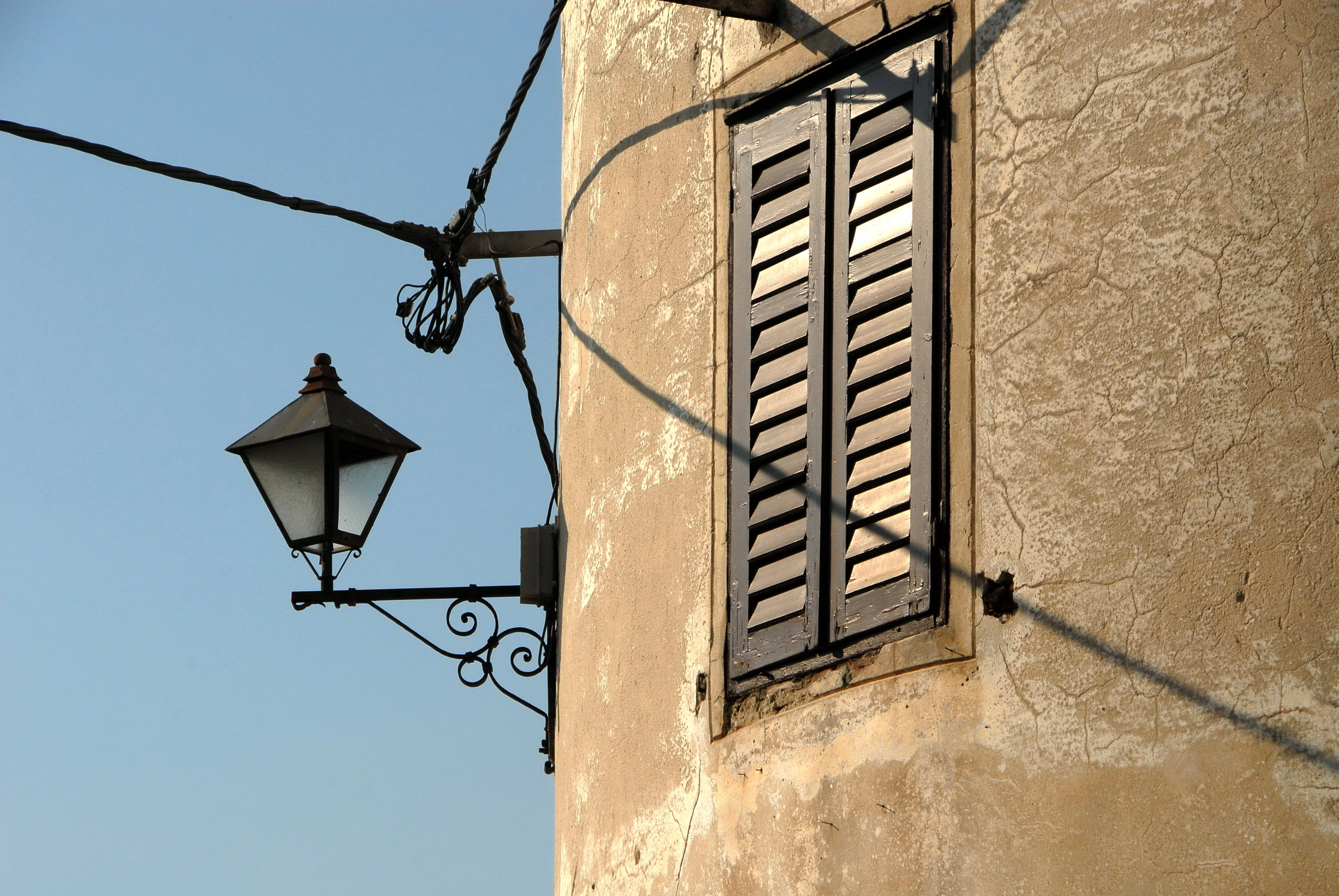 Lantern on the Tabor keep in Vipava, Goriska, Slovenia